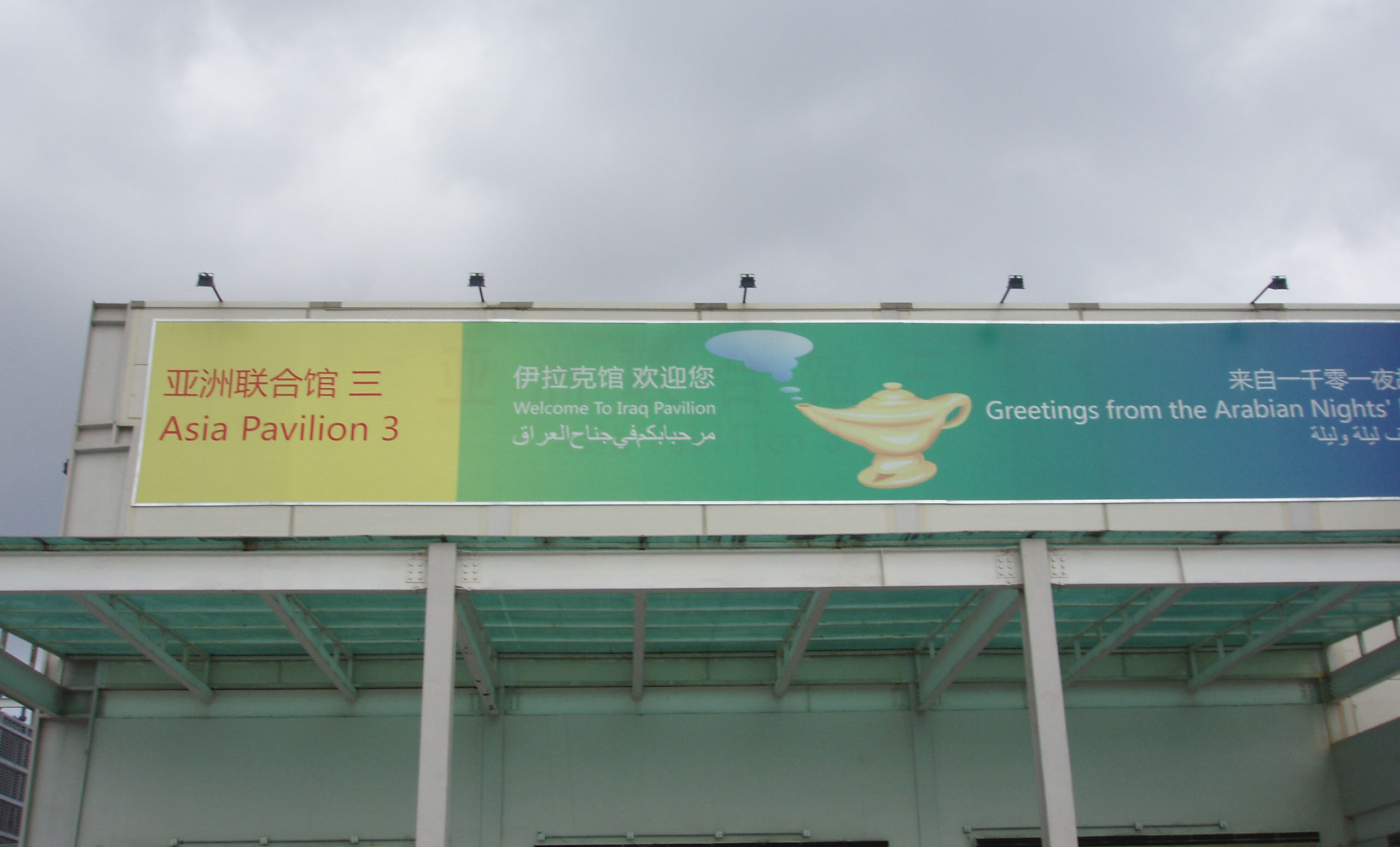 Iraq Pavilion of Expo 2010,Shanghai.